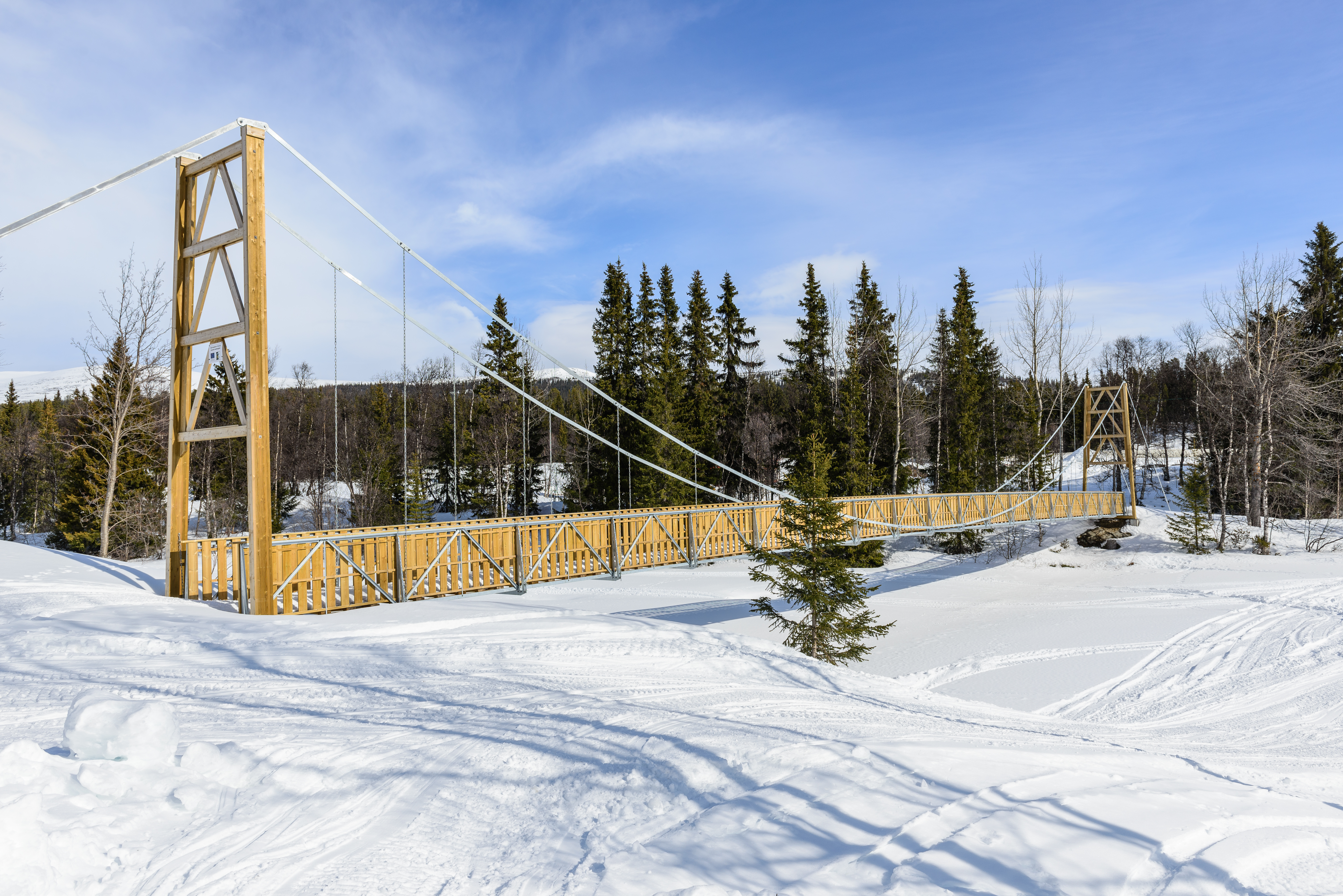 Suspension bridge, River Ljungan, Ljungdalen.